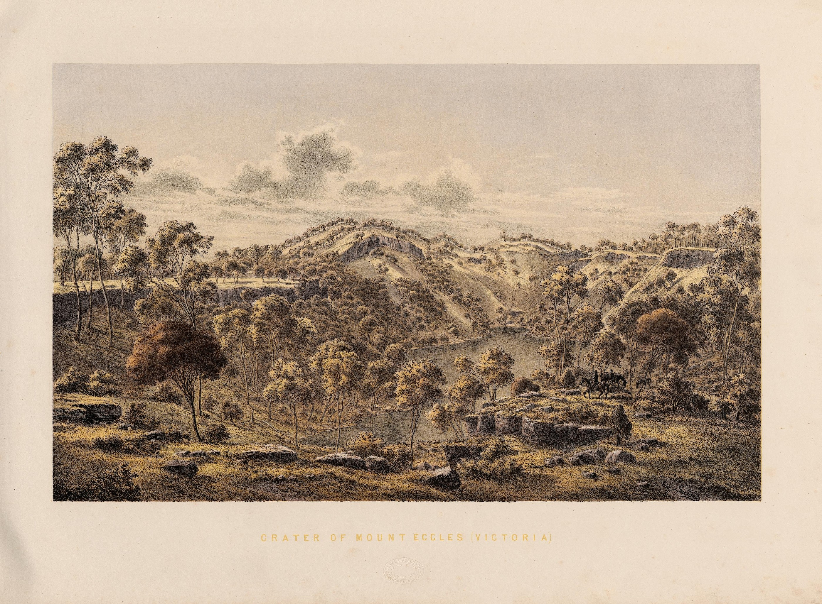 "The crater itself is one of the most picturesque in Victoria, owing to the irregularity of its structure, the fanciful disposition of the timber on it declivitous slopes, and to the circumstance that a beautiful fresh water lake occupies the concavity in the centre, and the waters are of a brilliant green harmonizing with the hue of the surrounding vegetation."